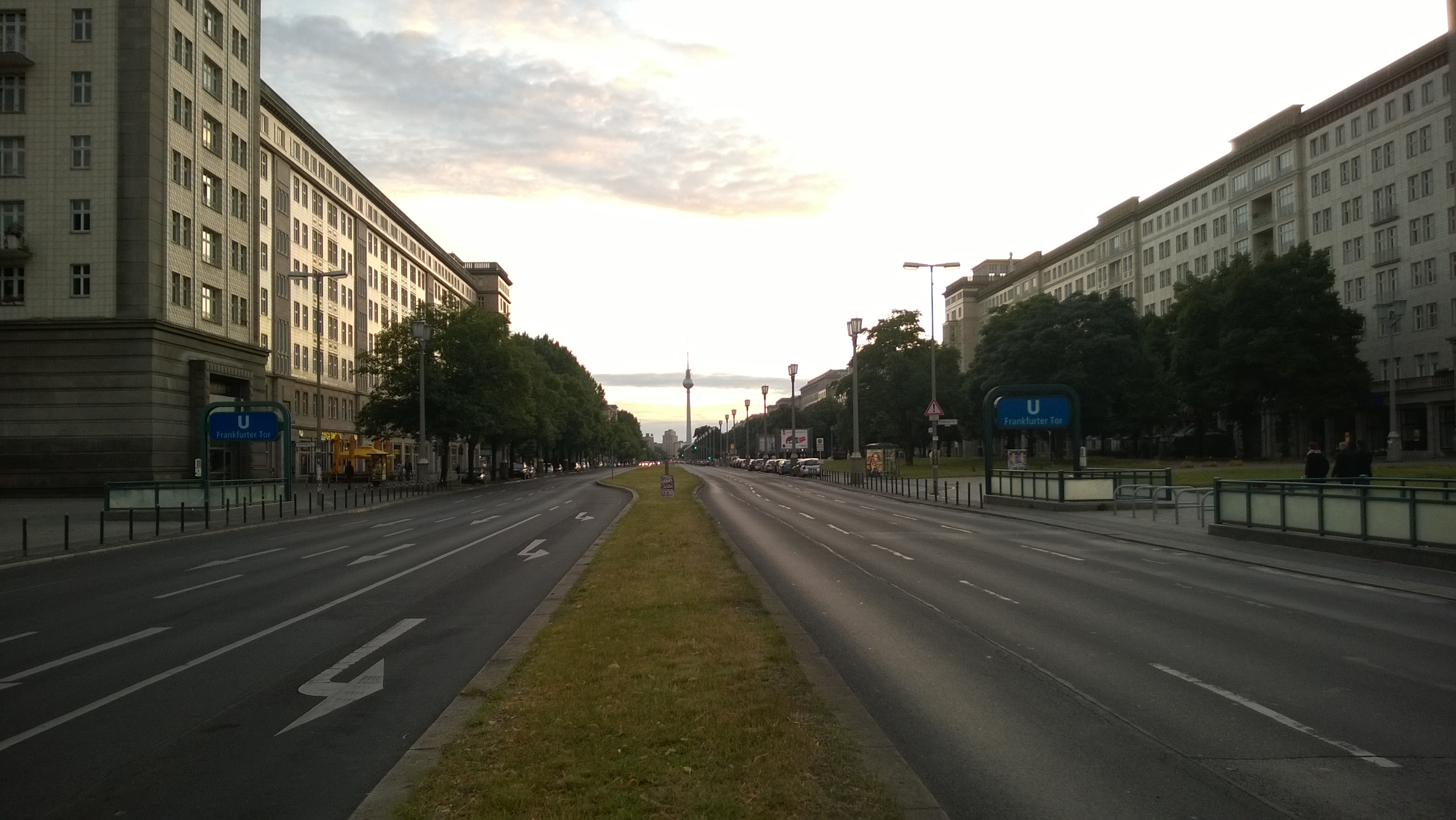 Karl-Marx-Allee in Friedrichshain, Berlin, looking towards the Frankfurter Tor and the Fernsehturm